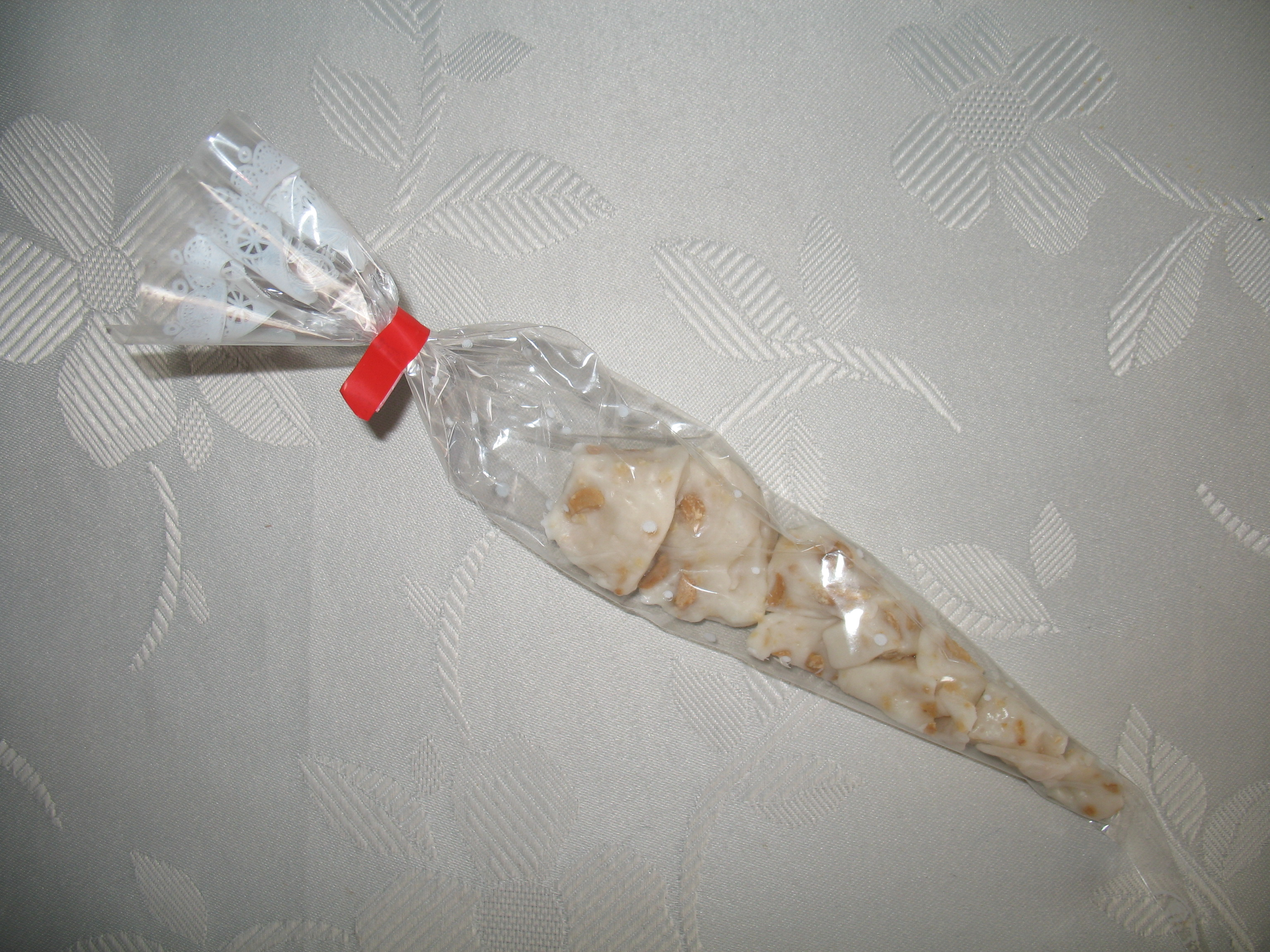 "Miodek turecki" (Turkish honey) — sweets traditionally sold in Kraków outside cemeteries on All Saints' Day